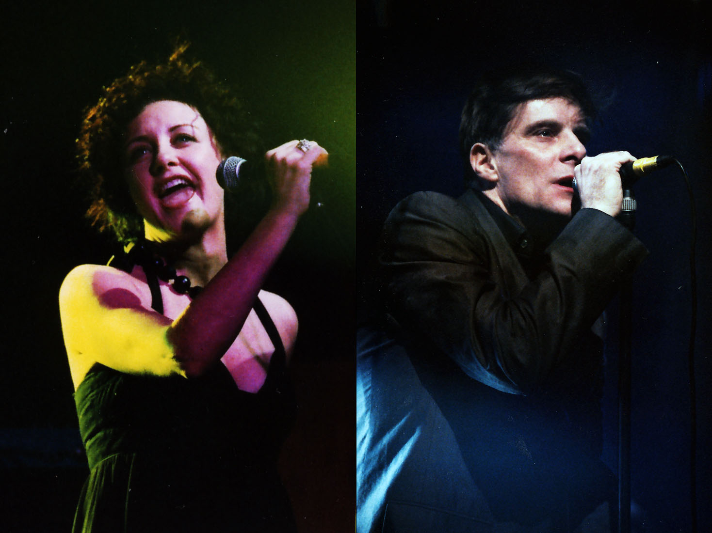 Deacon Blue performing live This file is a combination of two images already on Wikimedia imported from Flickr. [: by [:user:Goodreg3] [: by [:user:Goodreg3] Both links have the correct permission as indicated by the owner on Flickr.